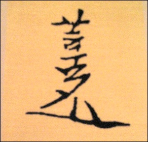 Sigh of King Taejong of Joseon, 3rd King of Joseon Dynasty in Korea